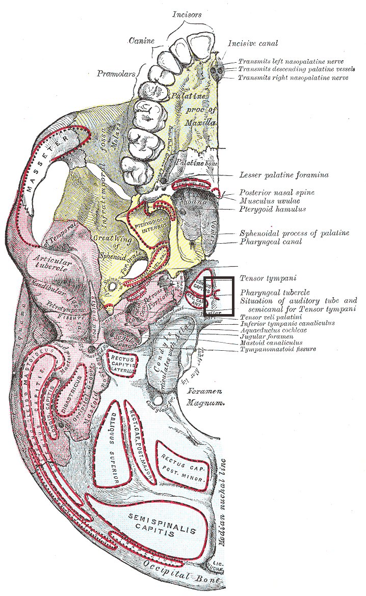 Base of the skull. External surface.